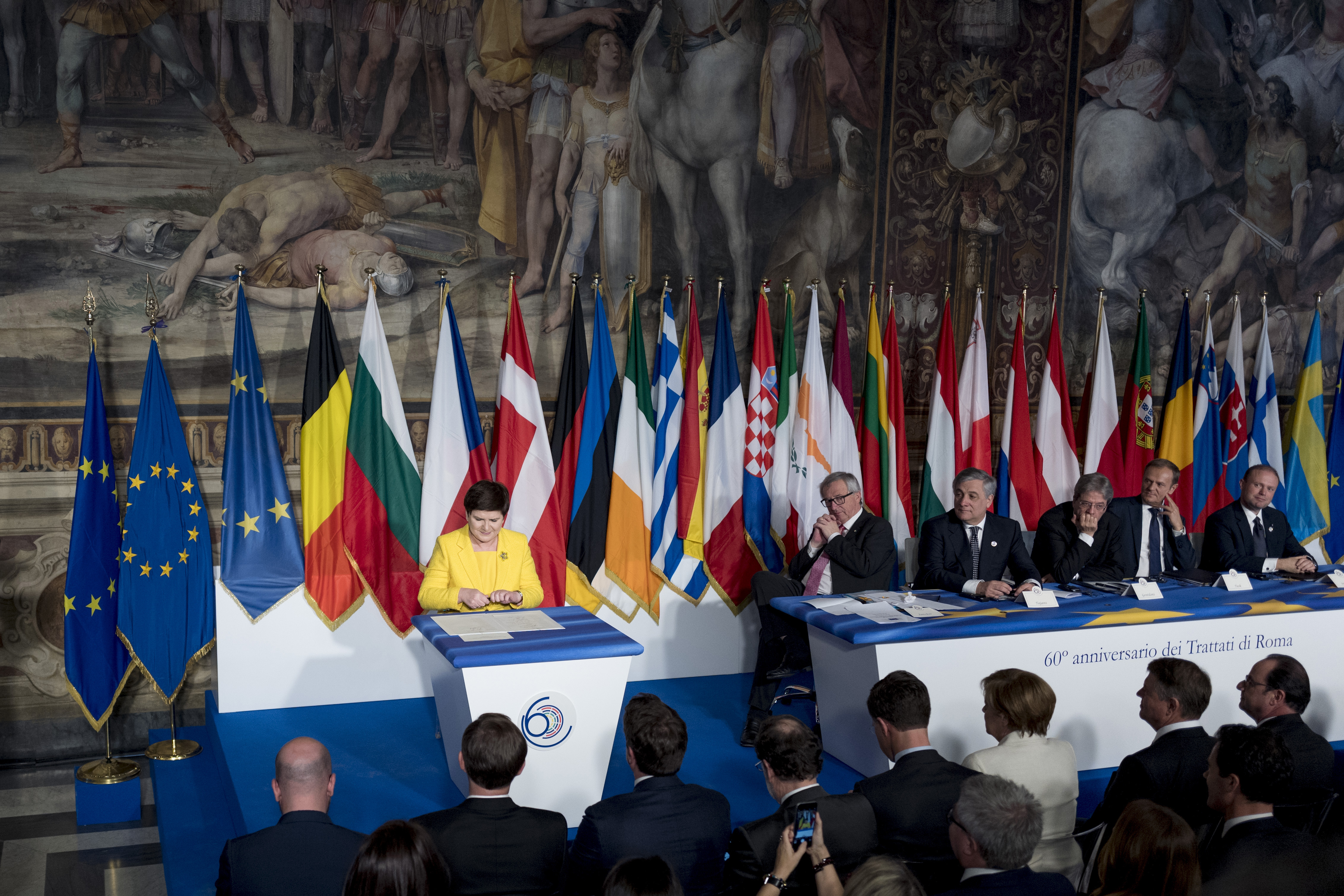 Polish Prime Minister Beata Szydło with leading EU politicians on occasion of the 60th anniversary of the Treaty of Rome in Rome